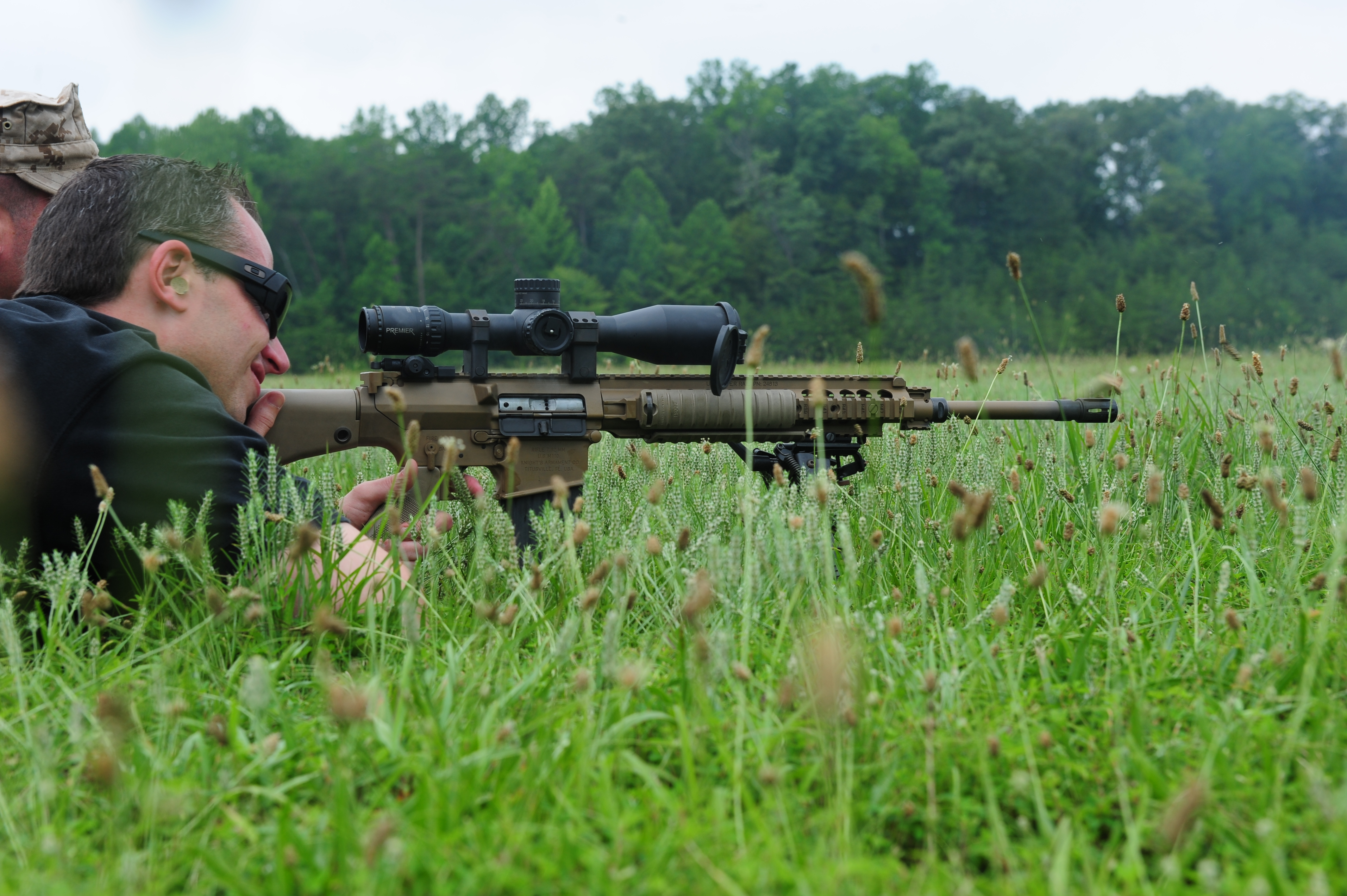 A member of the Marine Corps Executive Forum (MCEF) fires an M110 sniper rifle at a target under supervision of a U.S. Marine aboard Quantico, Va, during a tour of the National Capital Region, July 8, 2011. The MCEF is an initiative from the commandant of the Marine Corps and exposes influential civilian leaders to Marine Corps capabilities and current and future initiatives.